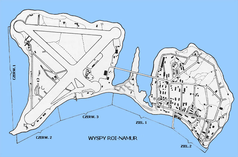 Landings on roi-namur island in the Kwajalein Atoll in WW2